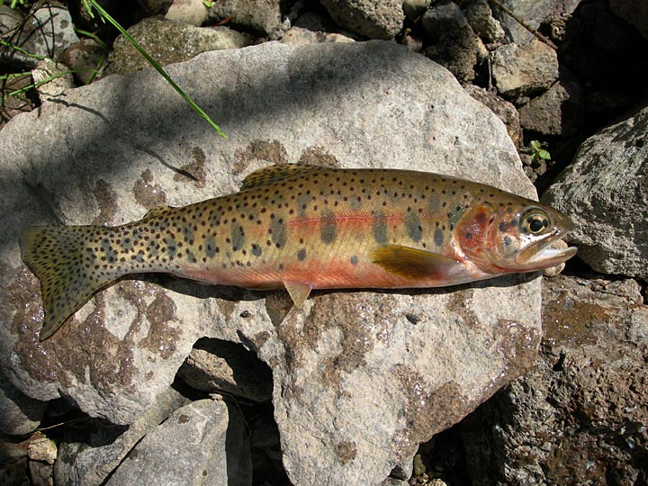 Westslope Cutthroat Trout from Yellowstone National Park